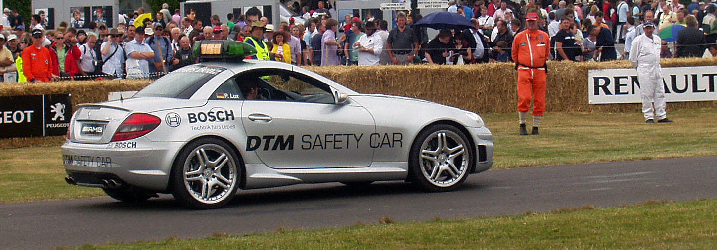 Mercedes-Benz SLK55 AMG, the 2006 DTM safety car on the hillclimb at the 2006 Goodwood Festival of Speed